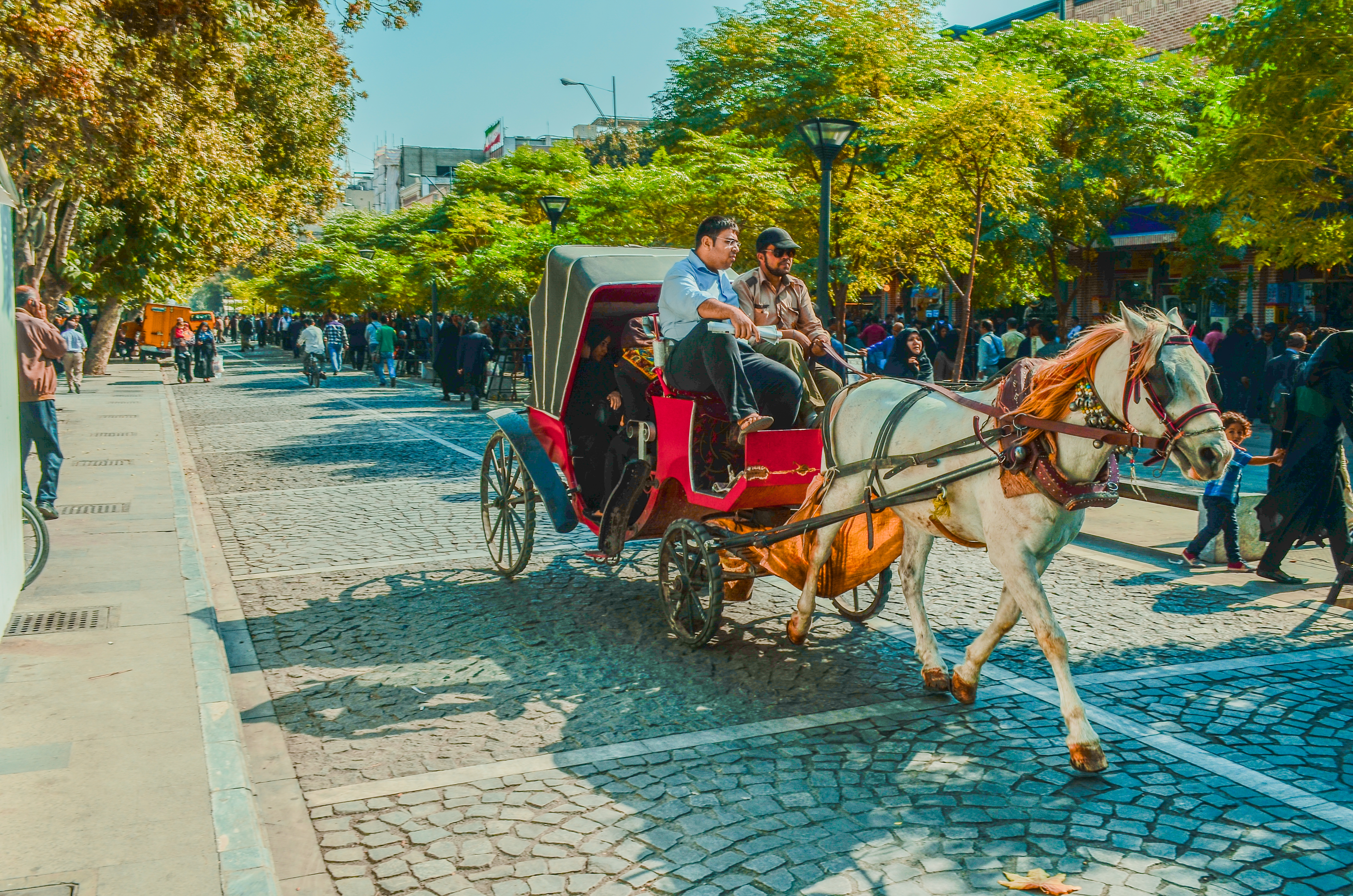 Horse coach in a busy Tehran street